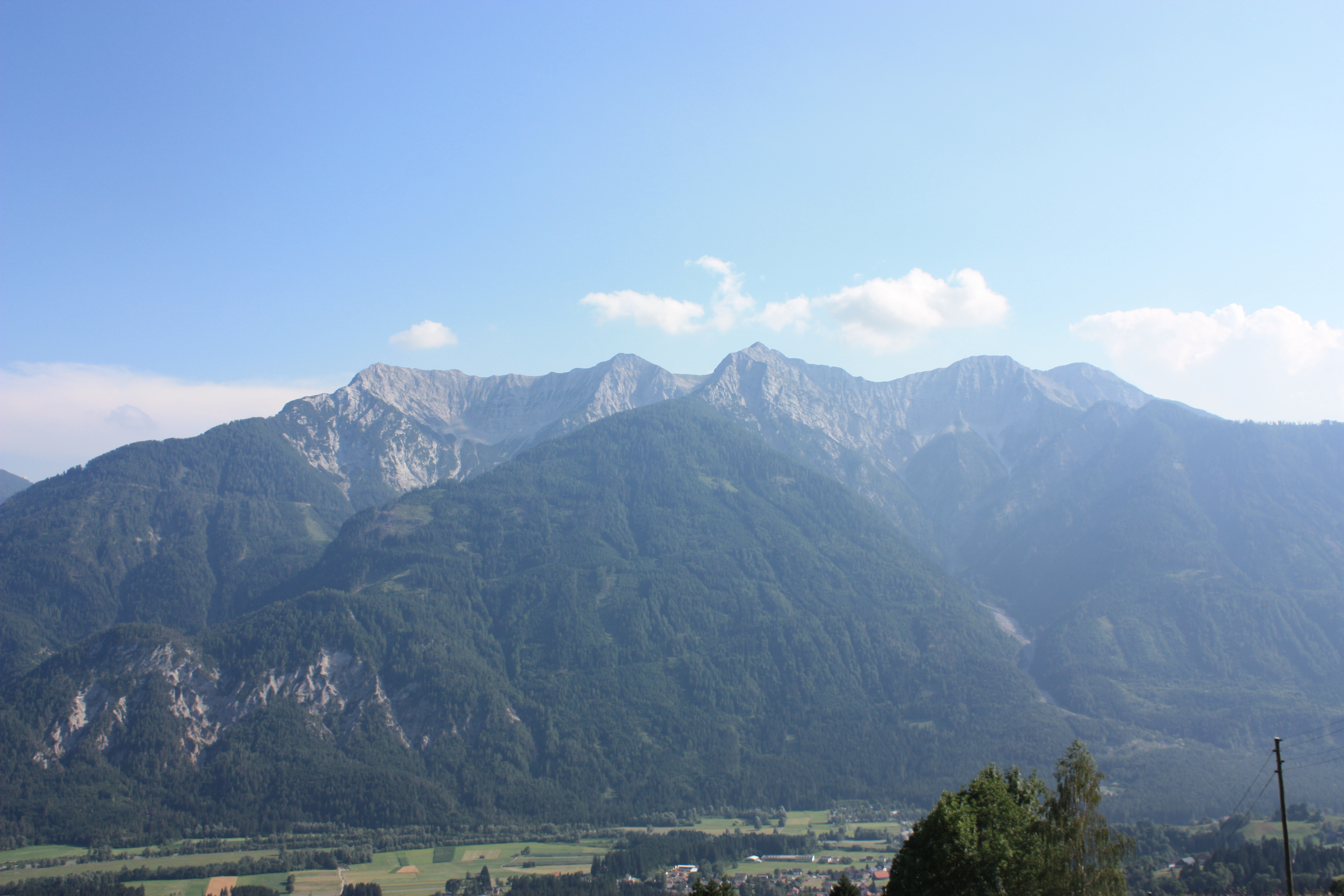 Jauken, 2276 m high mountain of the Gailtaler Alpen